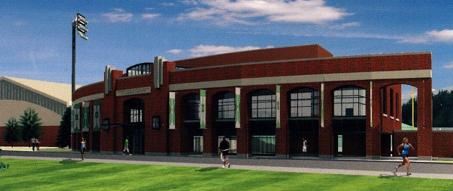 This is a work I received in the mail; it’s an image that I own.